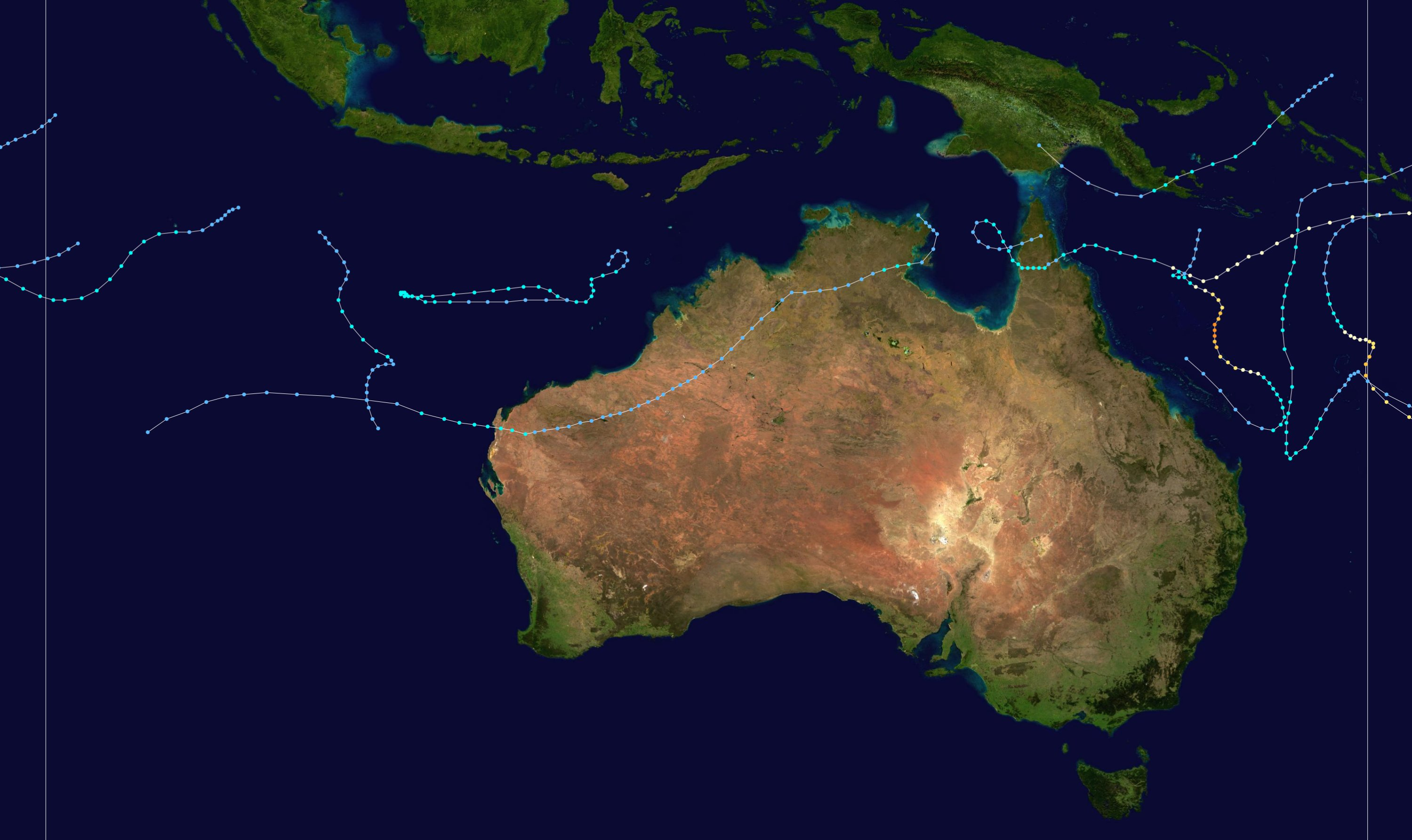 This map shows the tracks of all tropical cyclones in the 1992-93 Australian region cyclone season. The points show the location of each storm at 6-hour intervals. The colour represents the storm's maximum sustained wind speeds as classified in the Saffir-Simpson Hurricane Scale (see below), and the shape of the data points represent the type of the storm. Saffir–Simpson scale Tropical depression≤38 mph≤62 km/h Category 3111–129 mph178–208 km/h Tropical storm39–73 mph63–118 km/h Category 4130–156 mph209–251 km/h Category 174–95 mph119–153 km/h Category 5≥157 mph≥252 km/h Category 296–110 mph154–177 km/h Unknown Storm type Tropical cyclone Subtropical cyclone Extratropical cyclone / Remnant low / Tropical disturbance / Monsoon depression